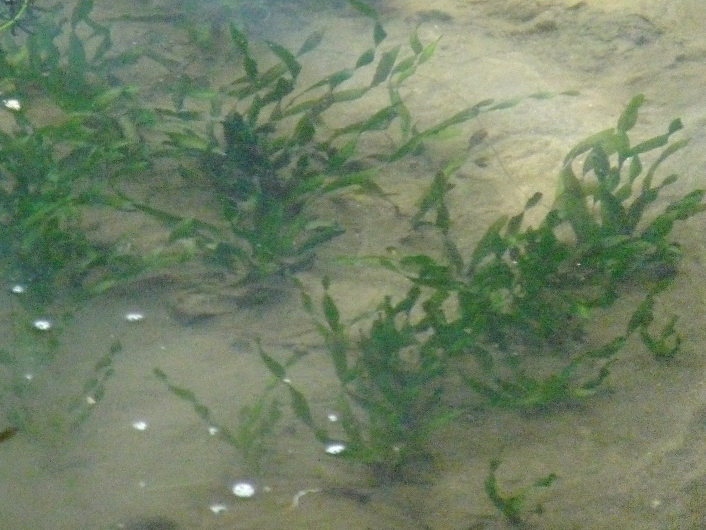 Vallisneria asiatica var. biwaensis